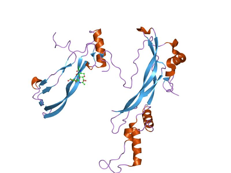 Cartoon representation of the molecular structure of protein registered with 1m4u code.